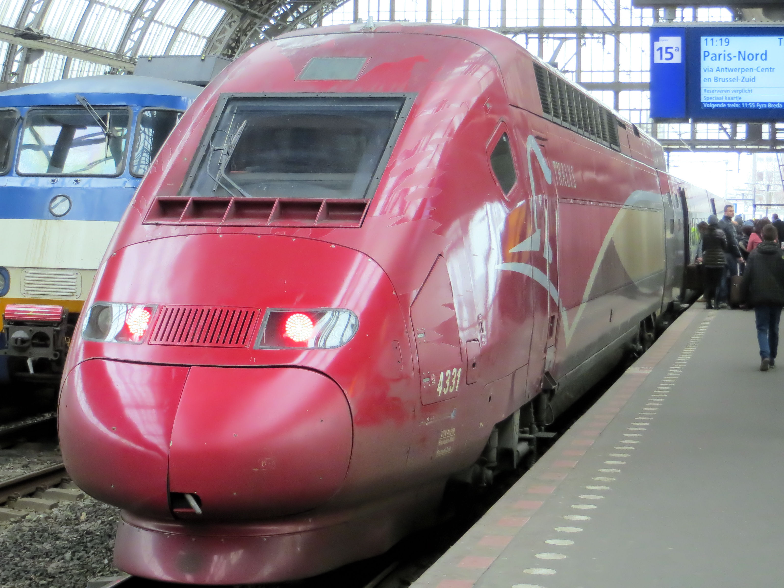 Thalys PBKA